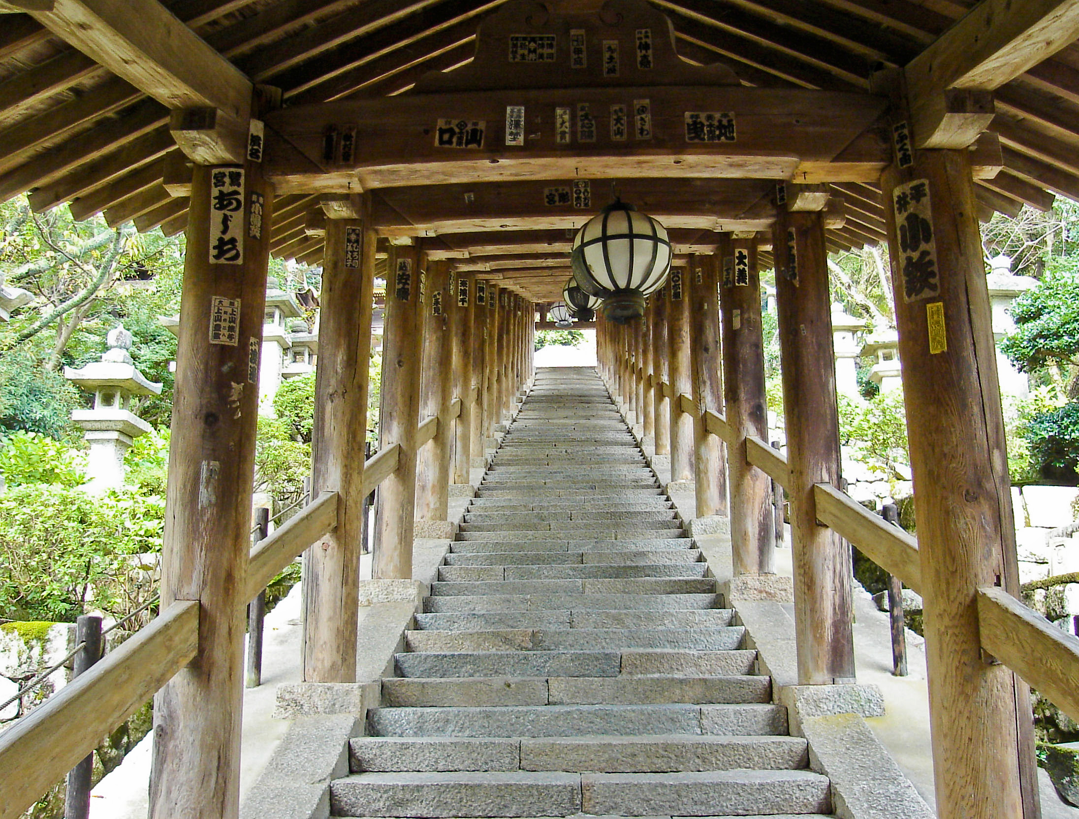 Hasedera tourou